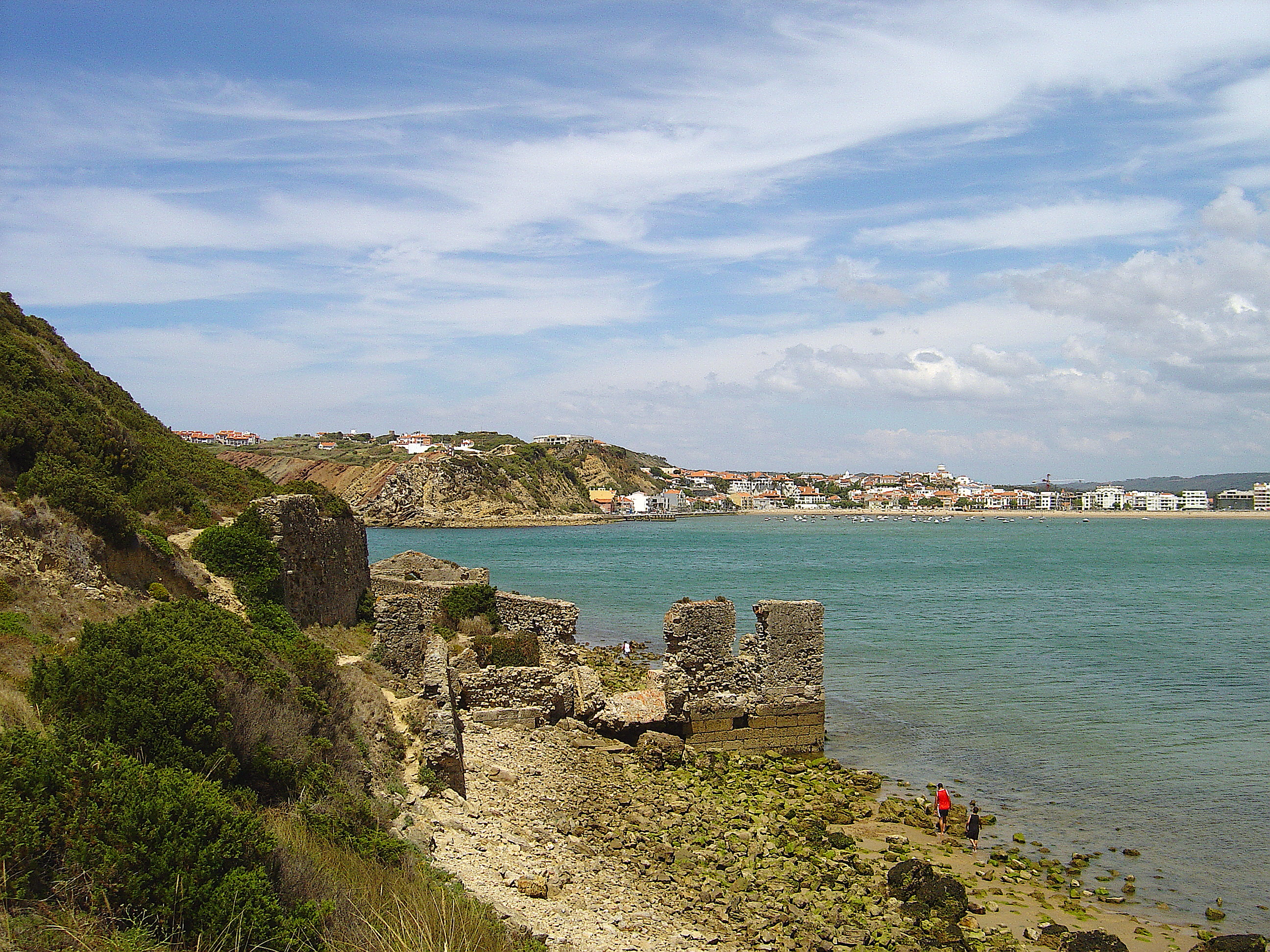 See where this picture was taken. [?]